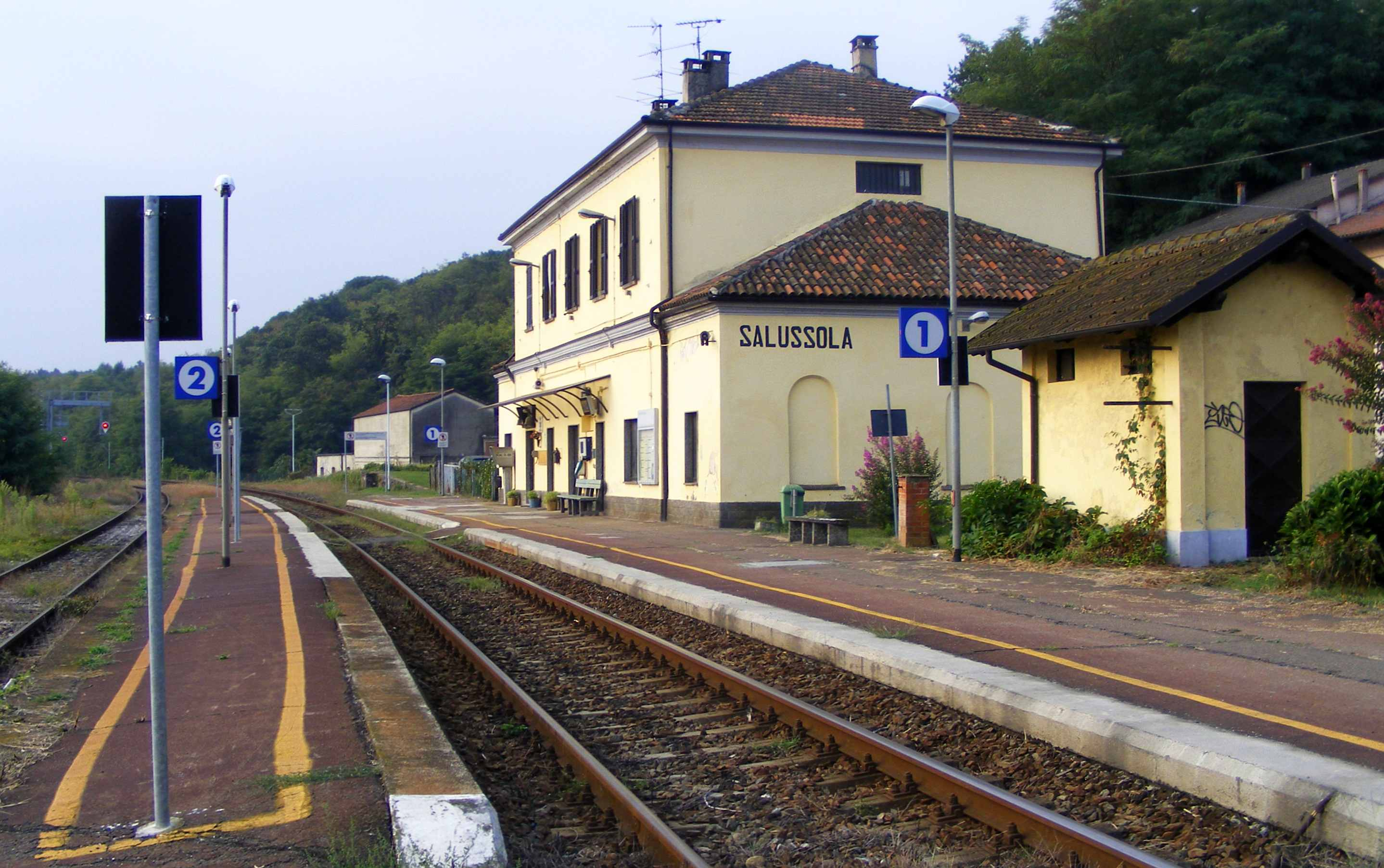 Salussola (BI, Italy): train station